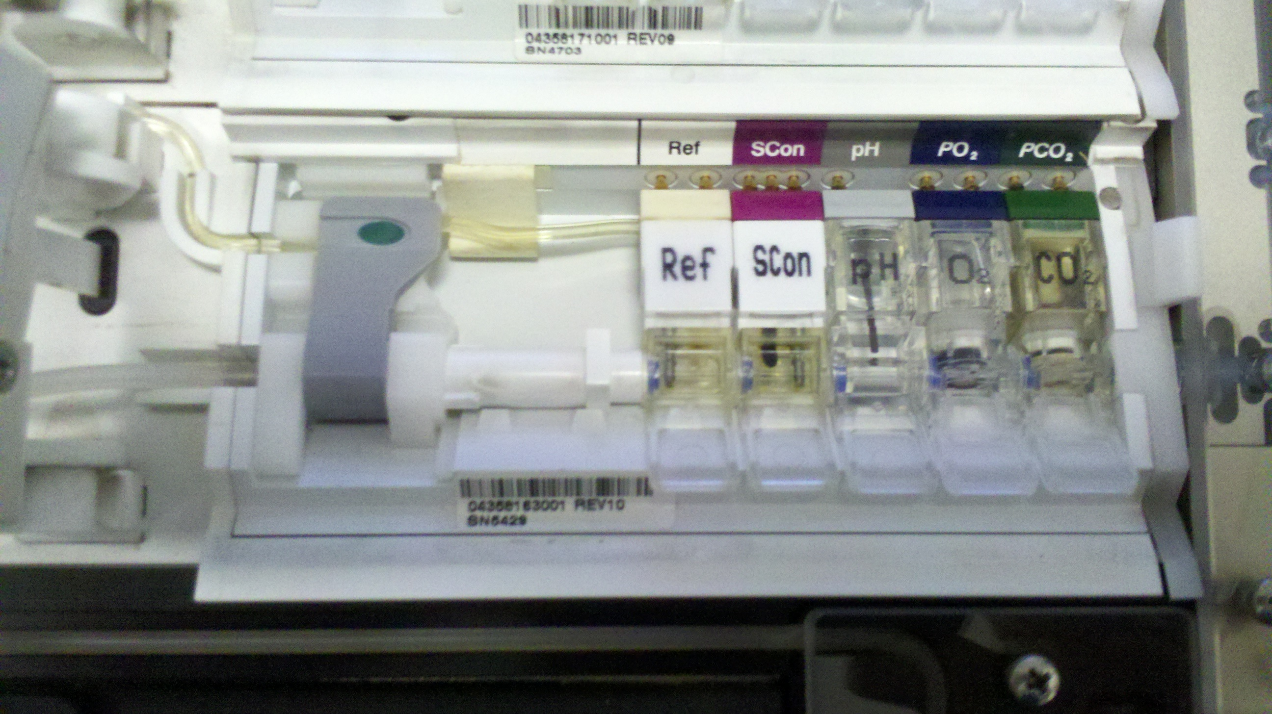 Cobas 221 (Roche Diagnostics) - GS module (detail). From the left: Reference electrode Sample's conductivity electrode pH (glass) electrode pO2 (Clark) electrode pCO2 (Severinghaus) electrode Emergency laboratory, Hospital de Niños, Córdoba, Arg.